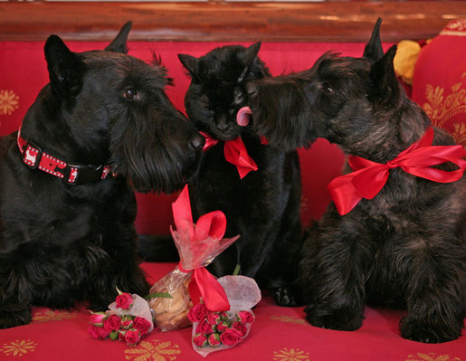 Barney watches as Miss Beazley gives a "kiss" to India the cat, Thursday, Feb. 8, 2007, as the White House pets pose for a Valentine's Day portrait at the White House.